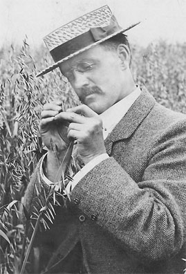 John Garton, pioneer agricultural plant breeder